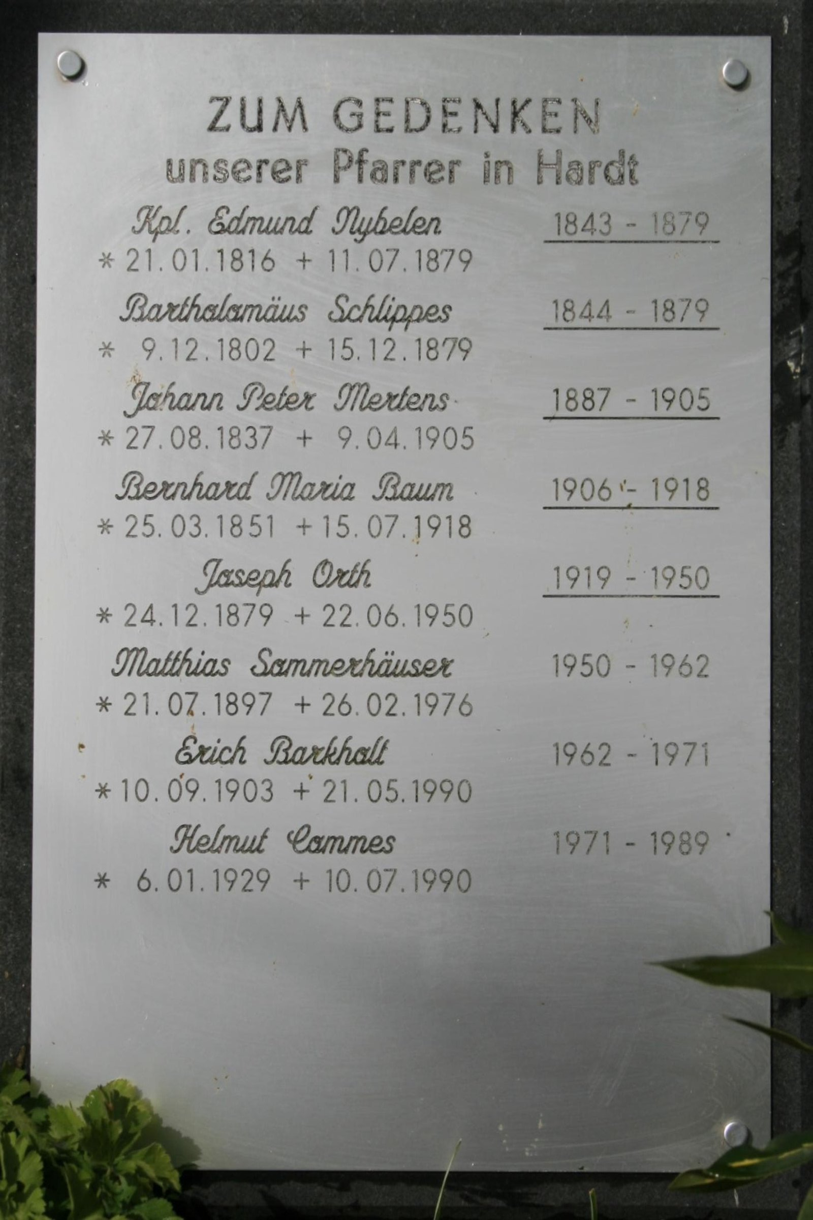 Cultural heritage monument No. N 012 in Mönchengladbach